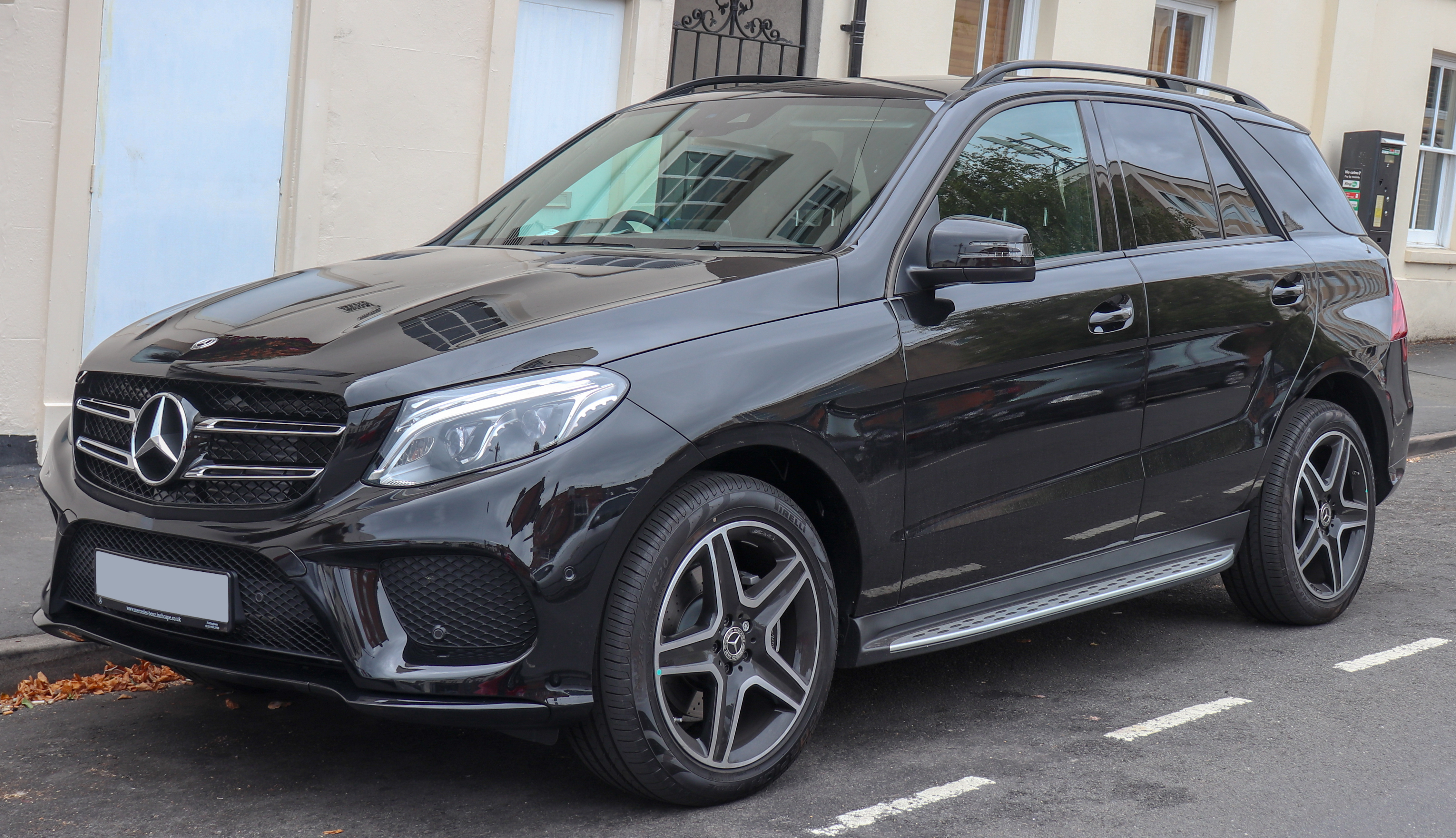 2018 Mercedes-Benz GLE 250d 4MATIC 2.1 Front Taken in Leamington Spa